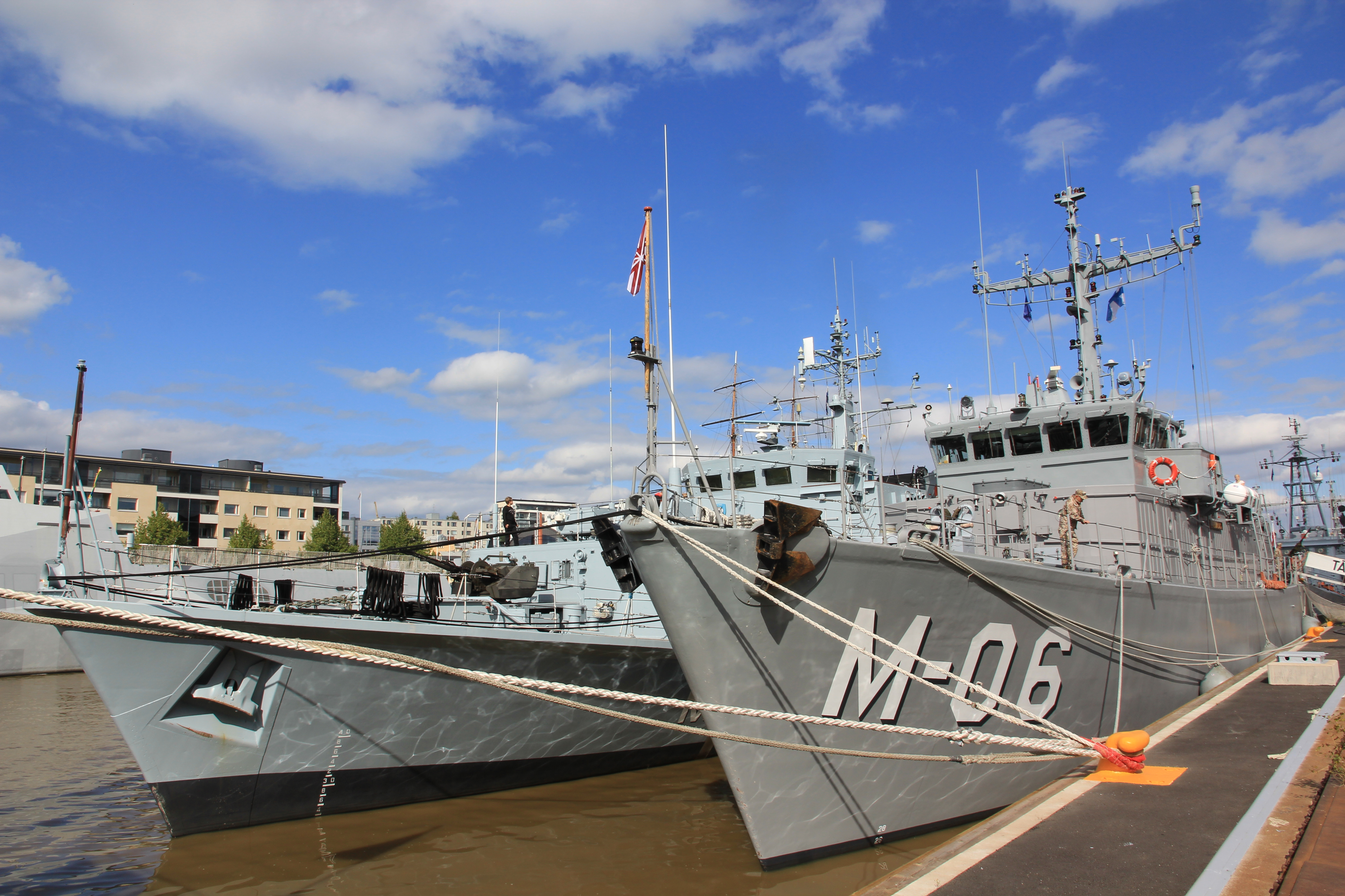 Latvian Tripartite-class minehunter M-06 Tālivaldis and Estonian Sandown-class minehunter M314 Sakala photographed during the Northern Coasts 2014 exercise public pre sail event in Aura river in Turku.